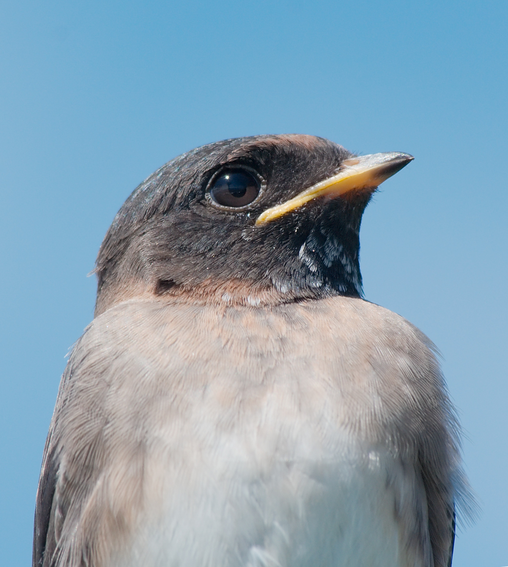 Cliff swallow (Petrochelidon pyrrhonota), taken in Milwaukee, Wisconsin